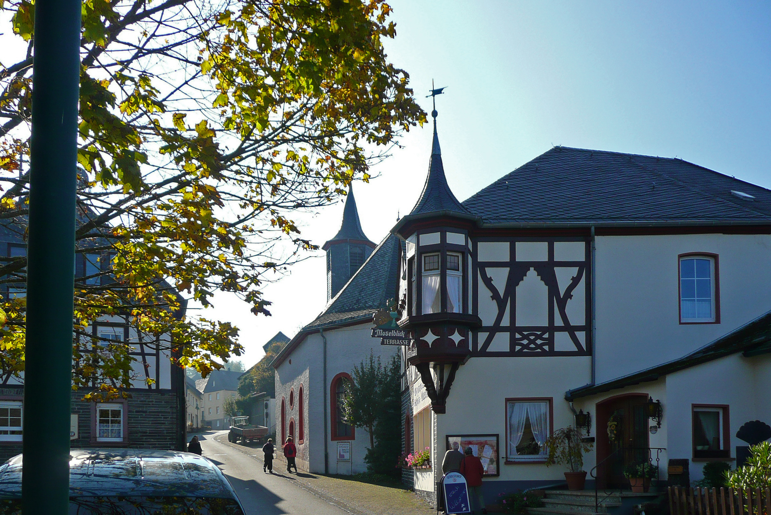 Starkenburg (Moselle)